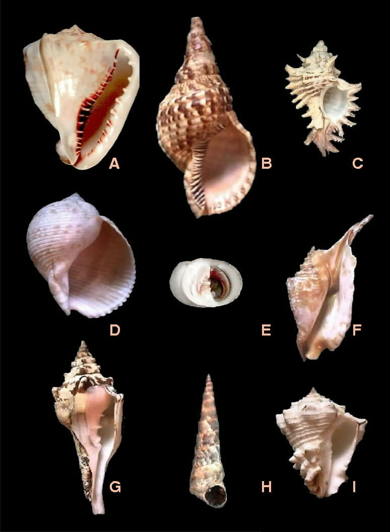 Plate with various shells of gastropods. Prosobranchios varios